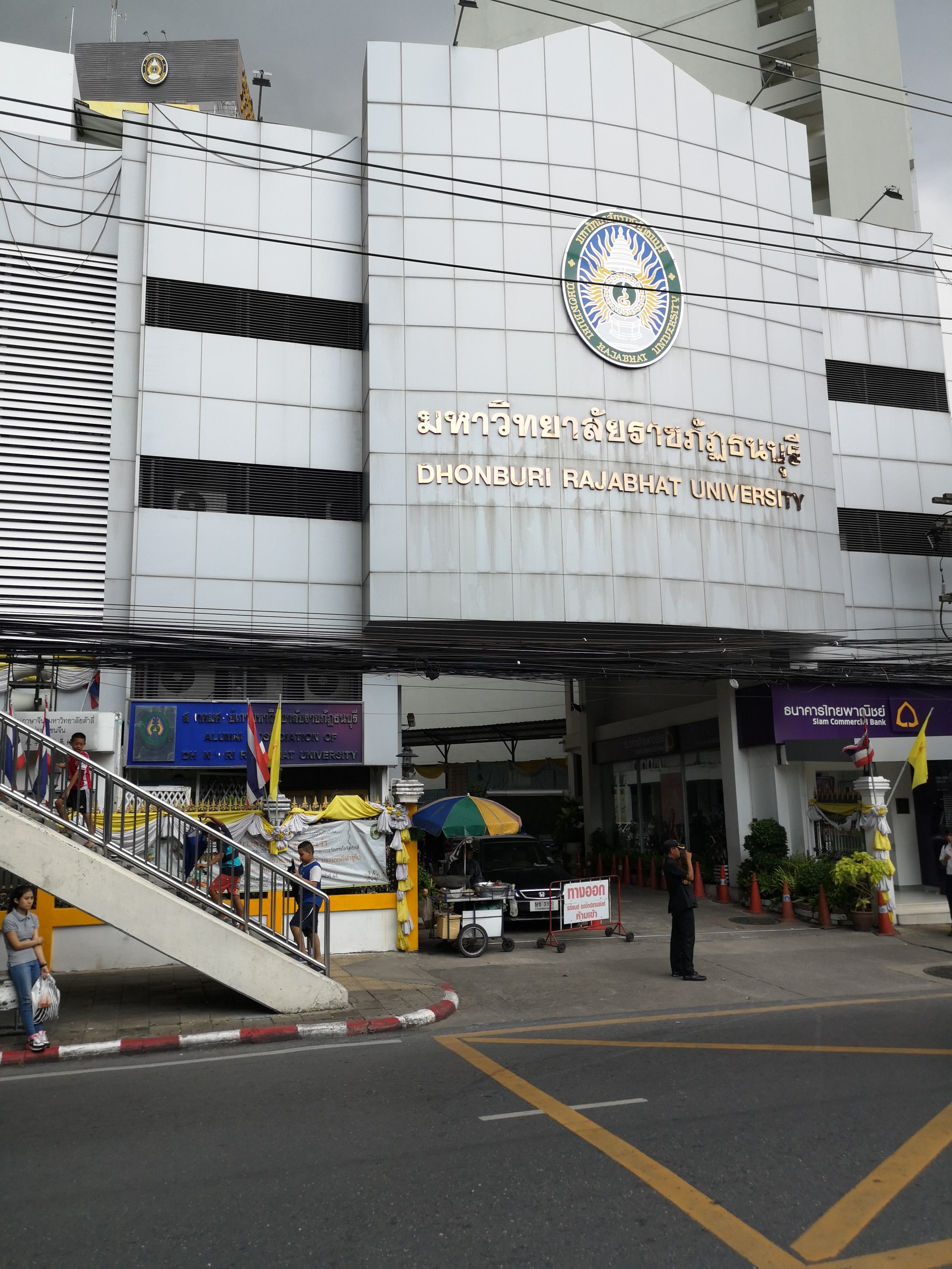 Entrance of Dhonburi Rajabhat University